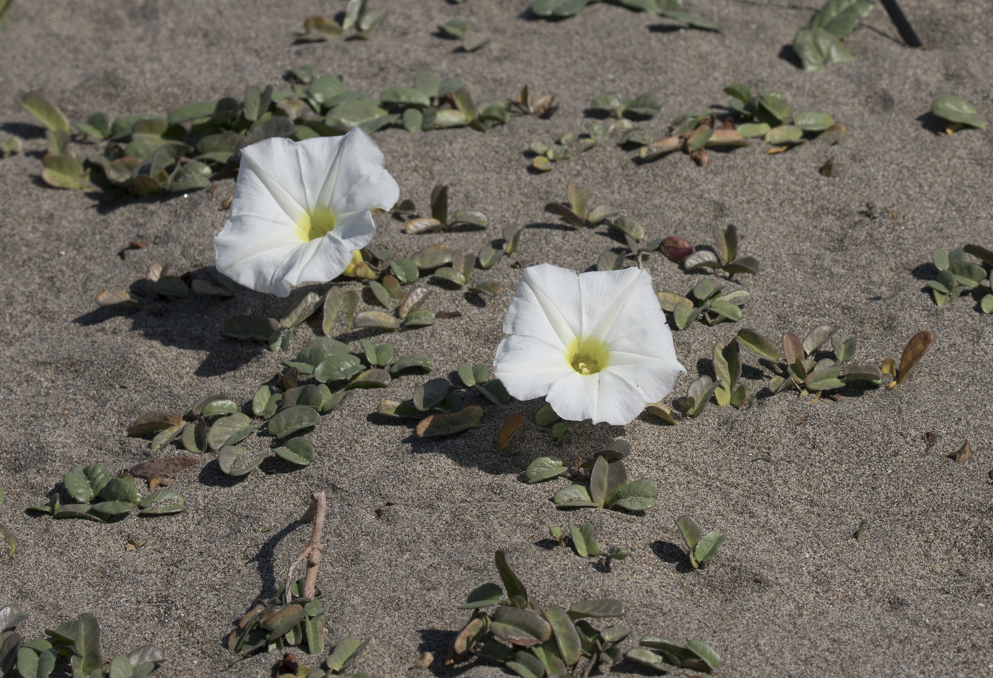 Beach Morning-glory / Fiddle-leaf Morning Glory (Ipomoea imperati). Tuzla - Karataş, Adana - Turkey.